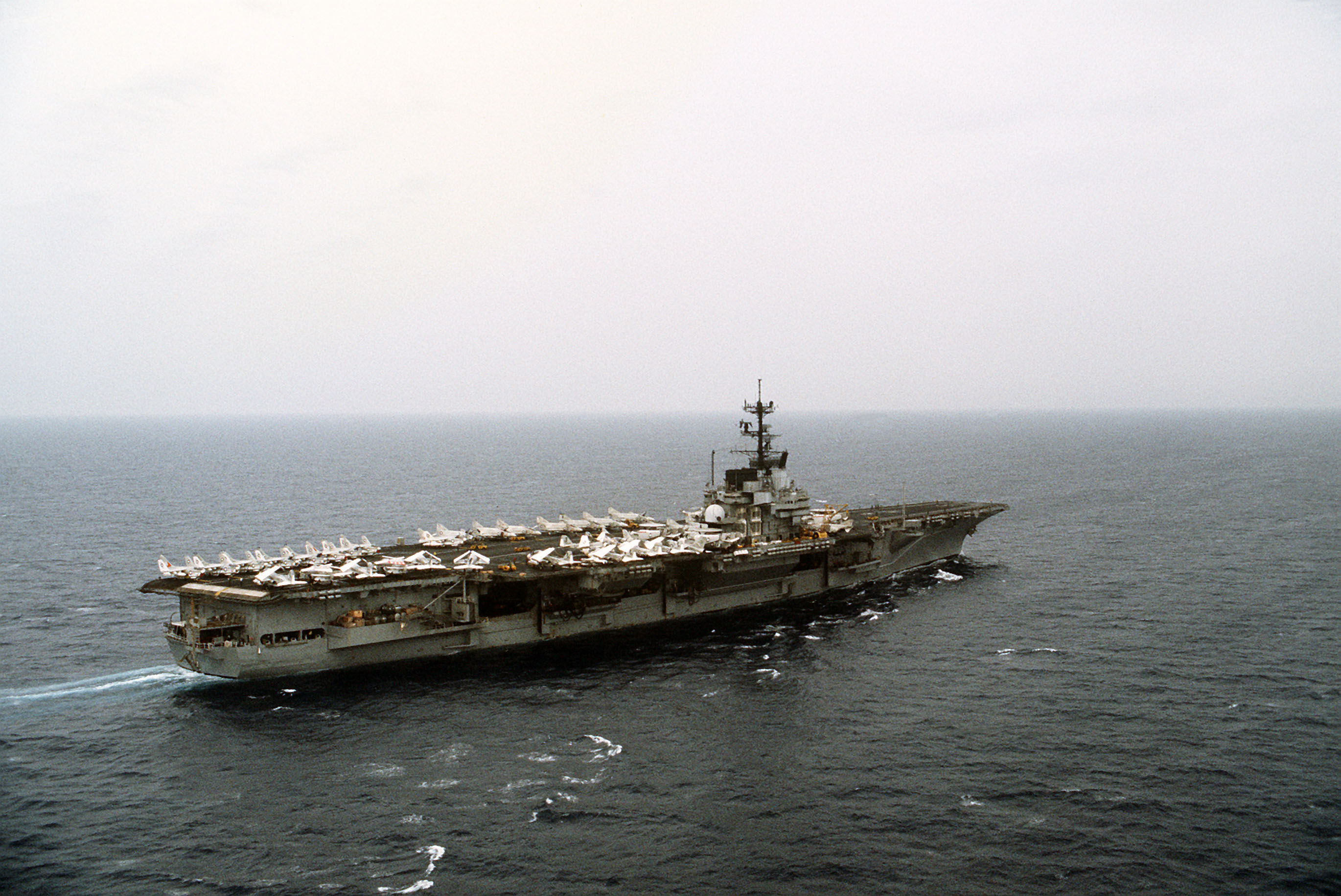 An aerial starboard quarter view of the aircraft carrier USS FORRESTAL (CV-59) underway.